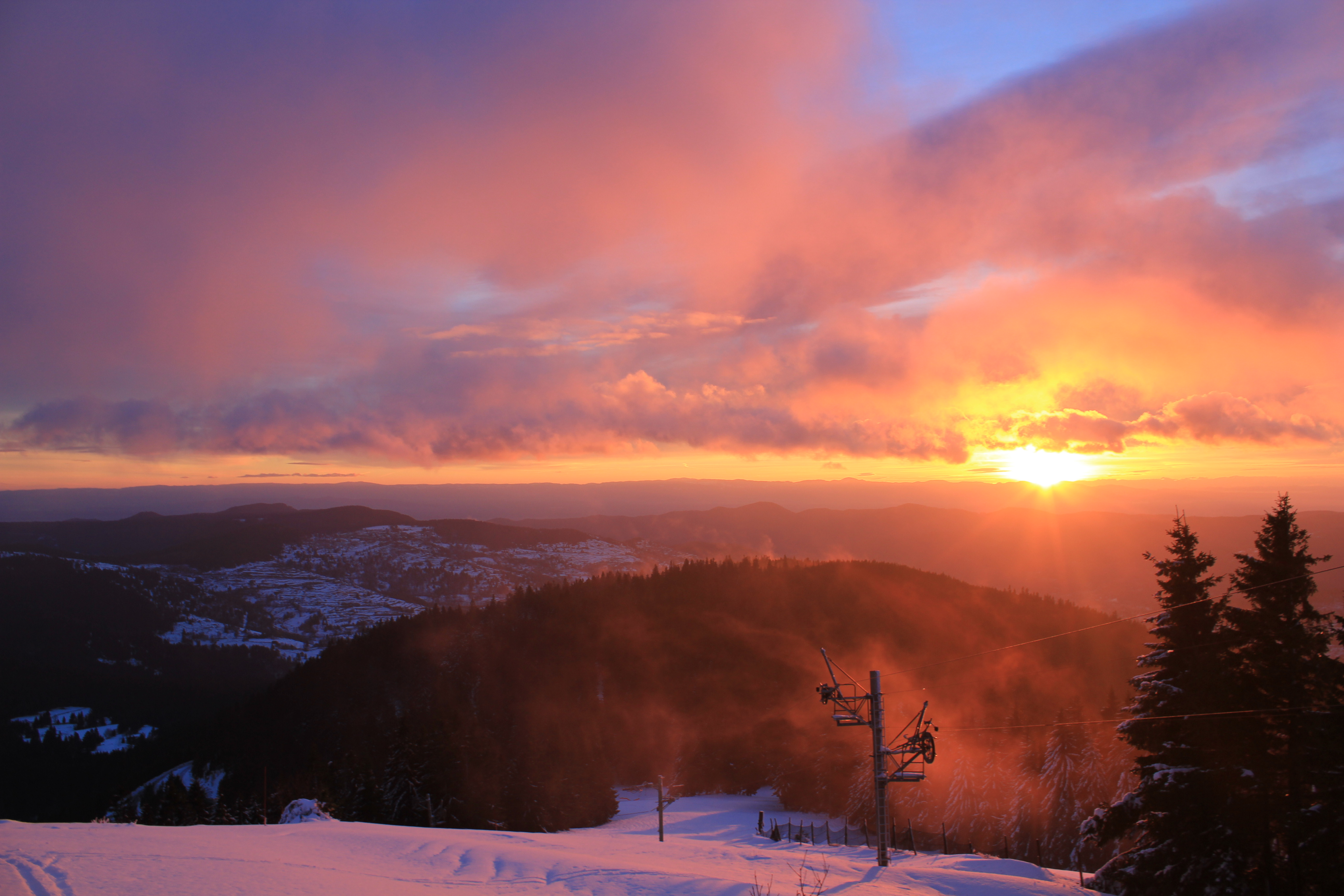 Sunrise on the ski resort “Le Tanet”, in the Massif of the Vosges, 1280m above sea level in 2010.